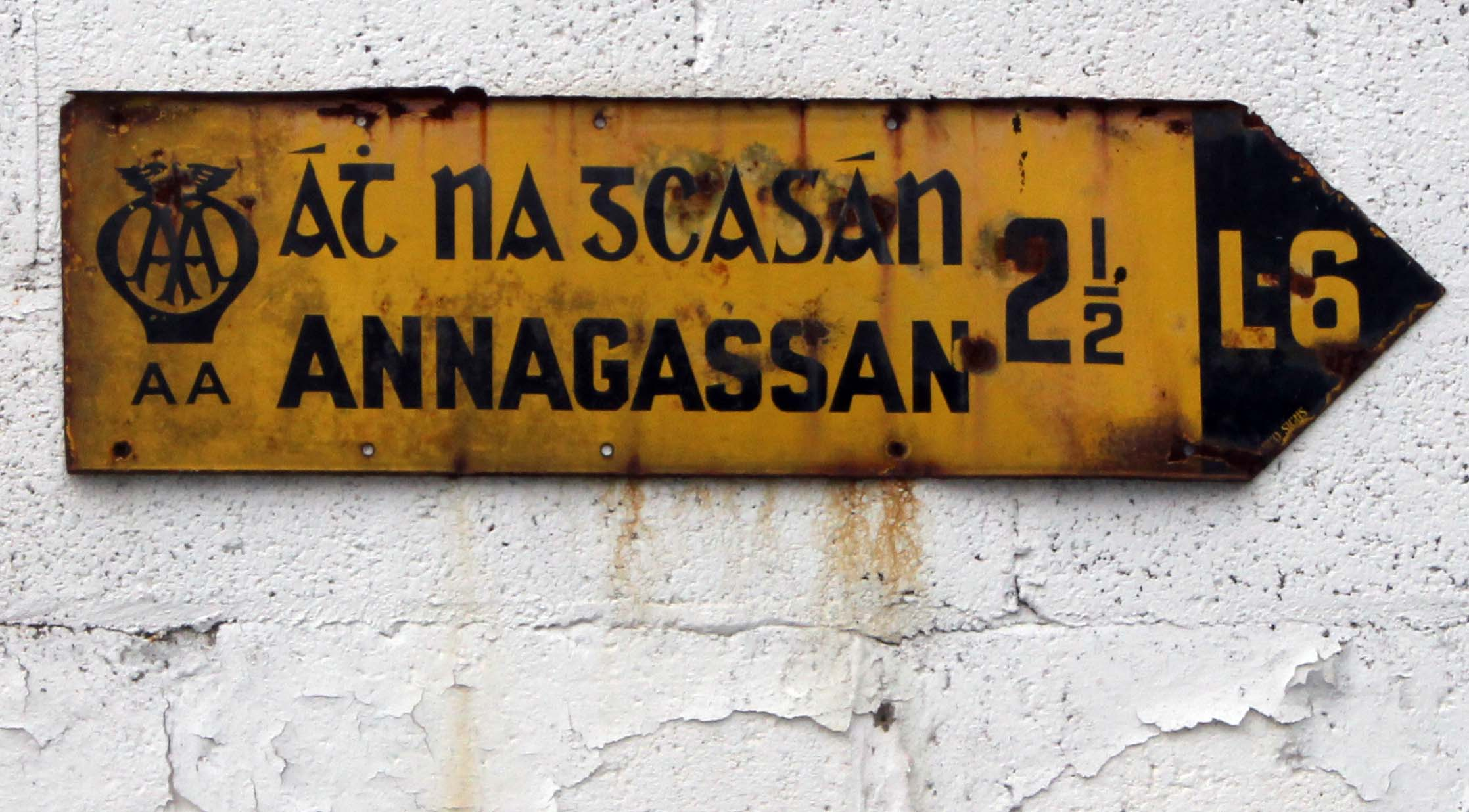 This is an old style fingerpost erected by the AA (Automobile Association). The distance is in miles. The road is the L6. Bilingual direction is given for Áth na gCasán (in Irish), Annagassan (in English) which is in County Louth, Ireland.